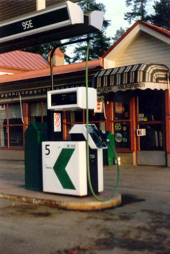 Filling petrol station, Ömossa village, Kristinestad, Finland.